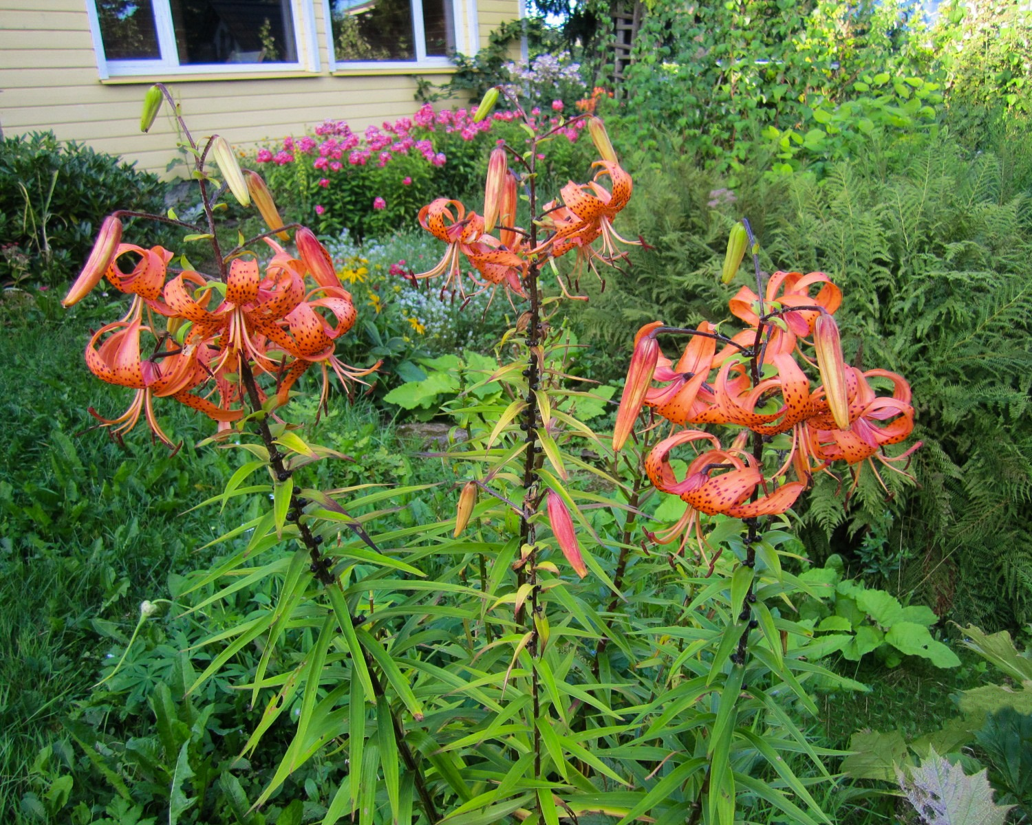 Lilium lancifolium (foregound), Phlox paniculata (background) and other late summer colors in Estonian home garden. (Viimsi Parish, Harju County)